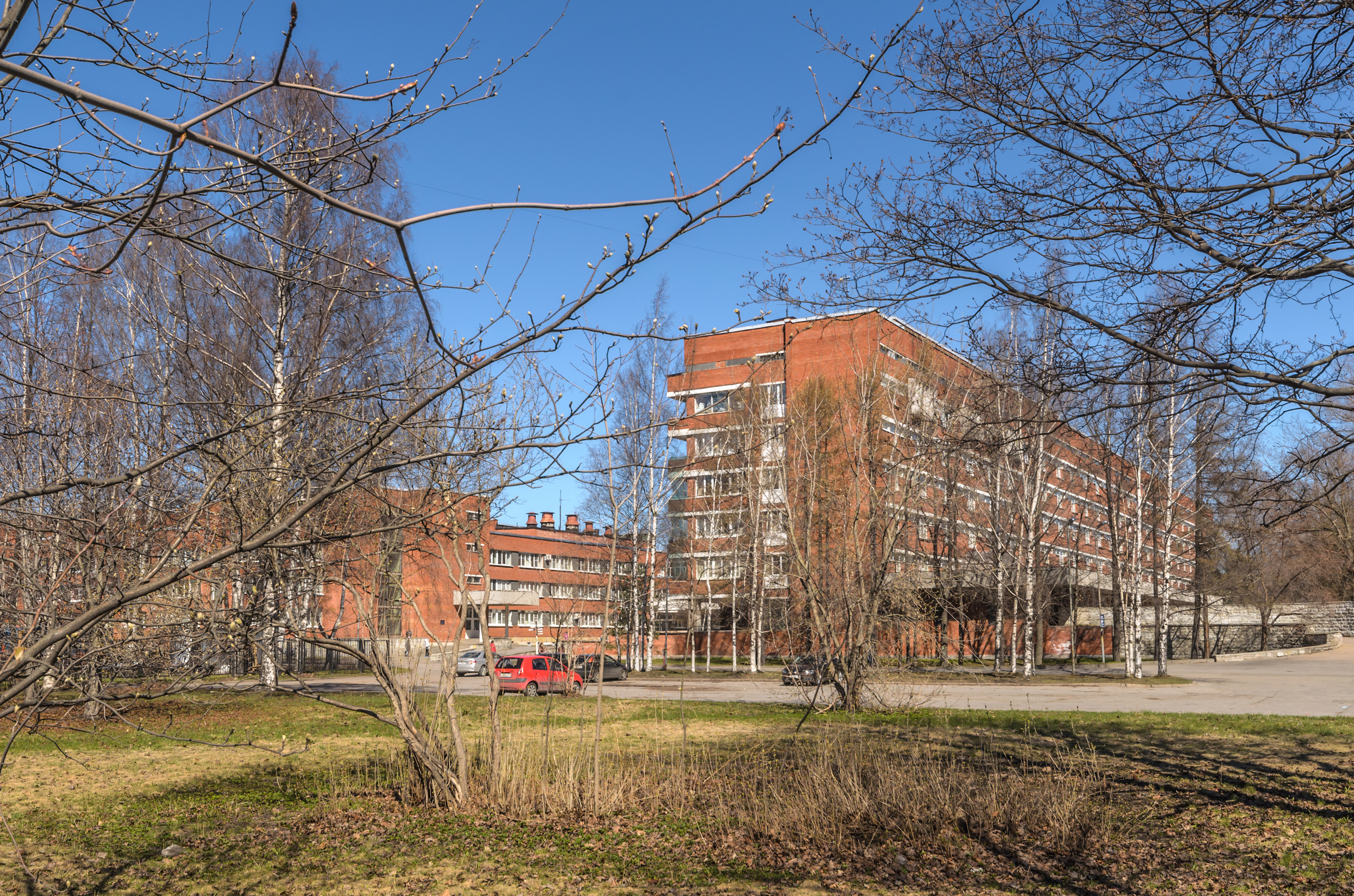 Hospital #31 on Krestovsky island in Saint Petersburg